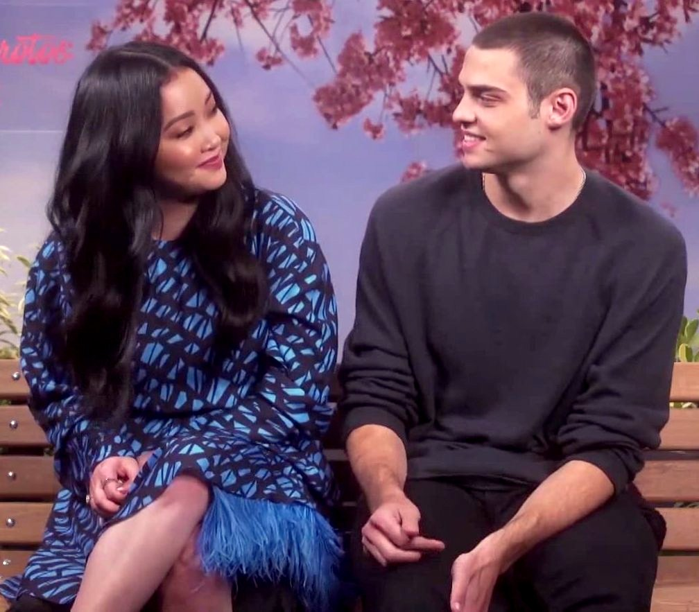 Interview with actors from the movie To All the Boys: P.S. I Still Love You, Lana Condor (Lara Jean) and Noah Centineo (Peter Kavinsky).